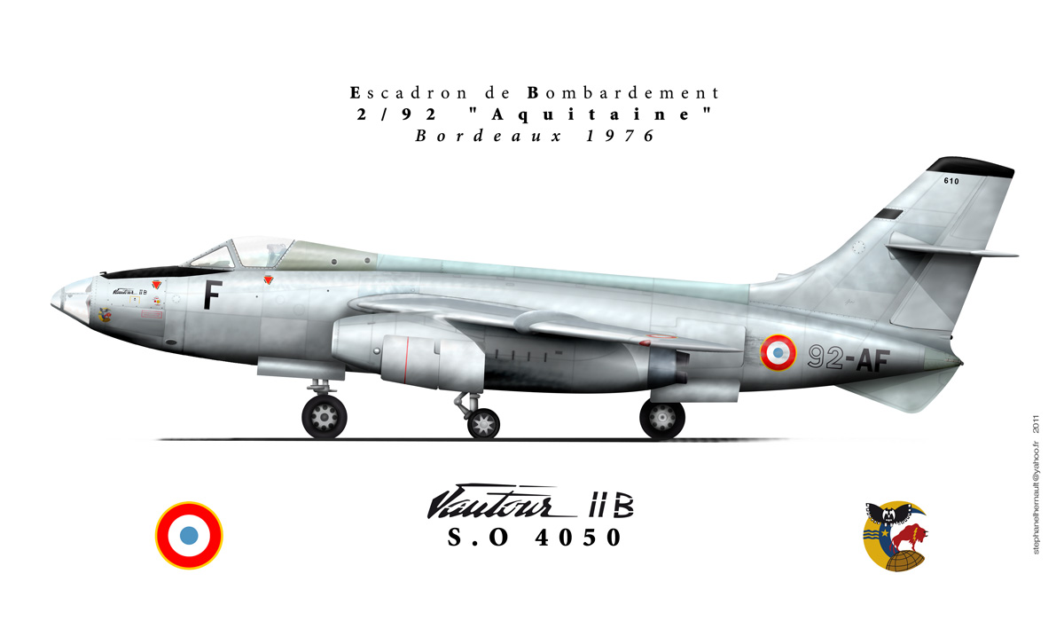 SNCASO 4050 VAUTOUR B 2/92"Aquitaine" Bombing squadron Armée de l air 1976